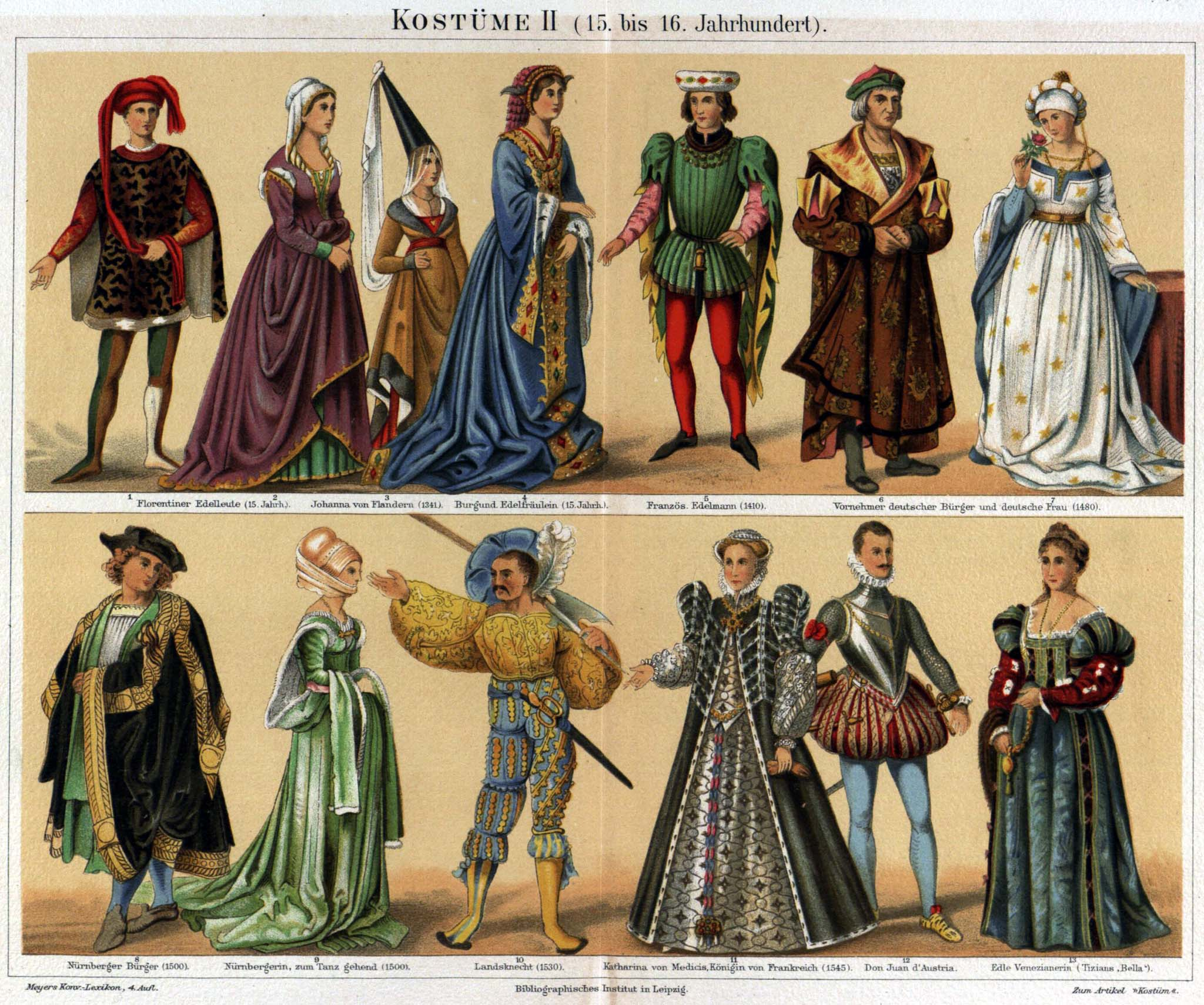 Clothing II (15th and 16th century).